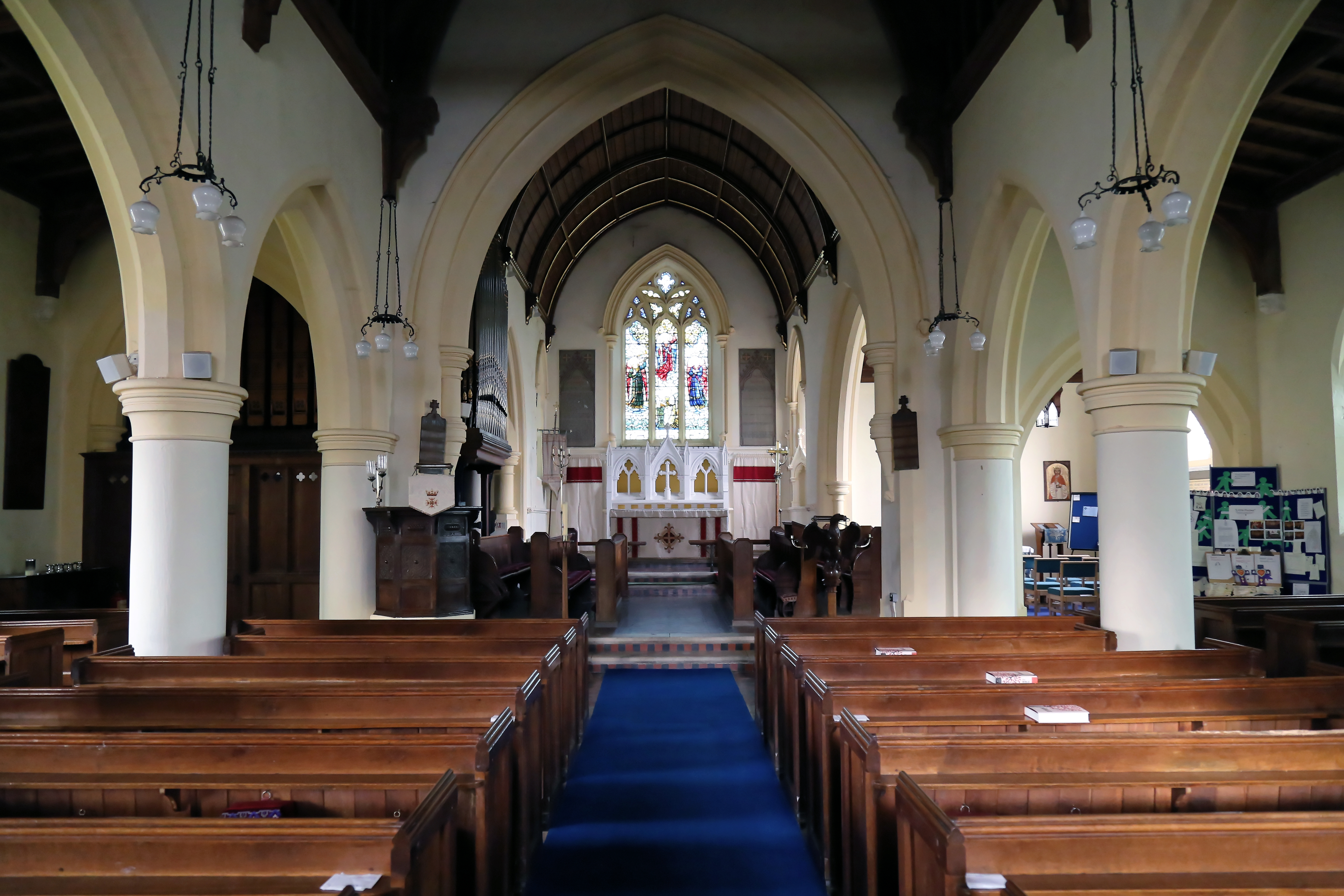 Looking east through the nave between nave arcades to the chancel arch and chancel of the Grade: II* listed early 13th-century St Mary the Virgin parish church of Matching, Essex, England.Software: file lens-corrected and optimized with DxO OpticsPro 10 Elite and Viewpoint 2, and further optimized with Adobe Photoshop CS2.